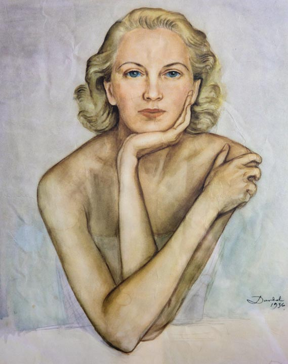 Painting by Nils Dardel, info to come